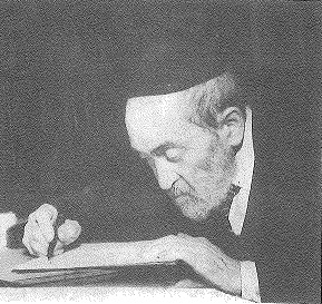 Julius (Judah David) Eisenstein, Orthodox Jewish editor, encyclopedist, translator, and writer.